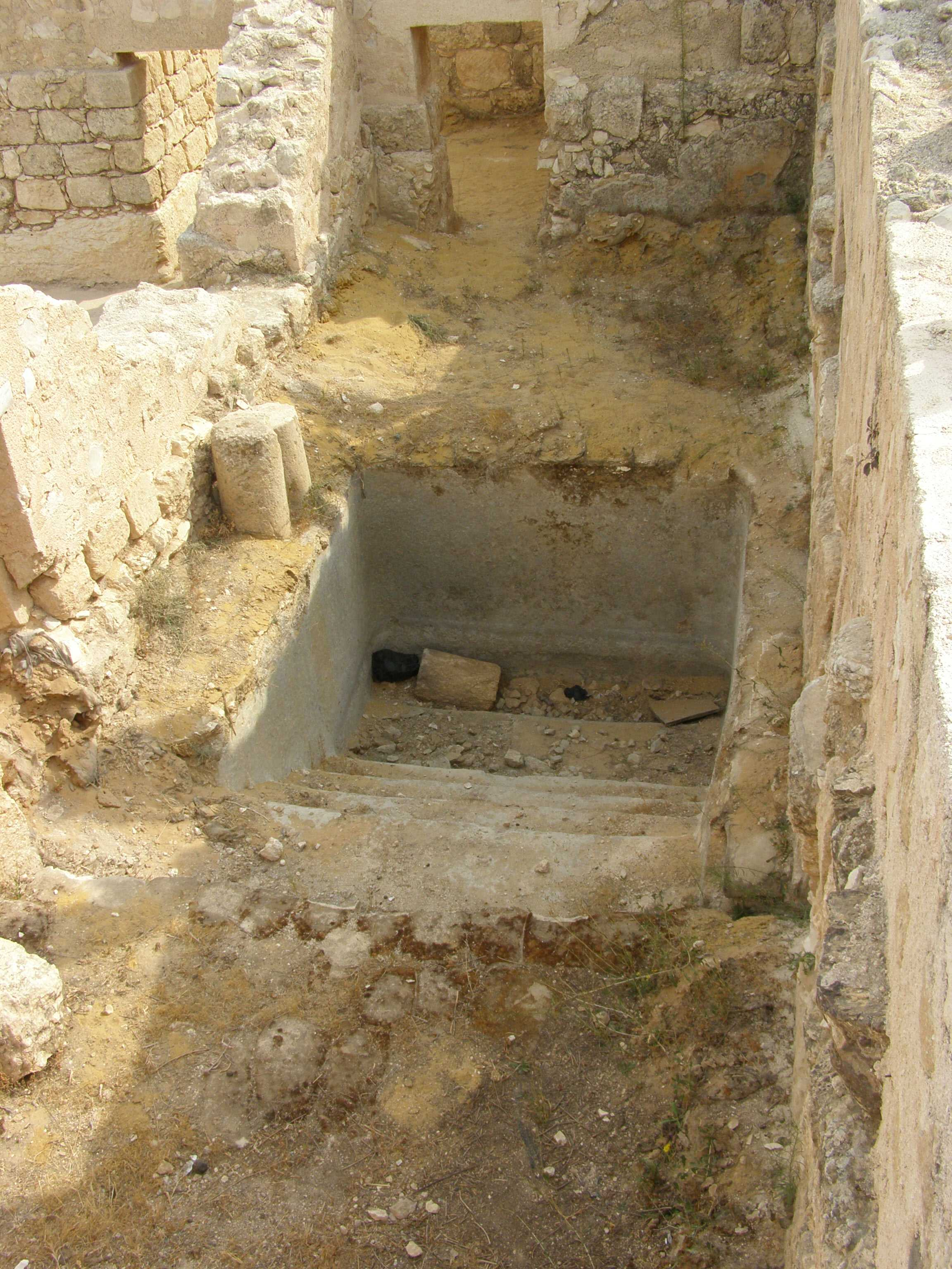 the Mikvah at Herodium down town Public bathing